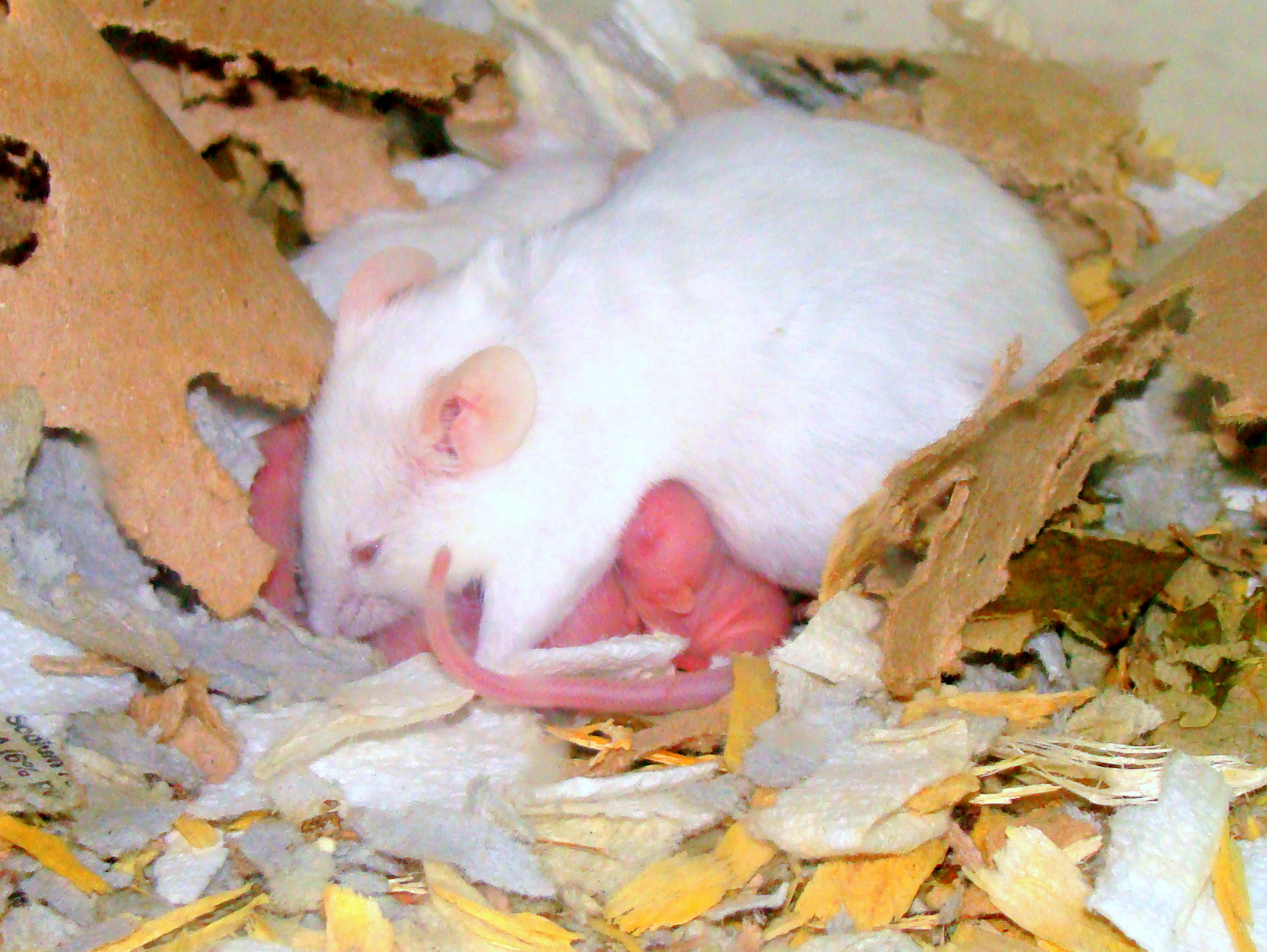 White lab mouse